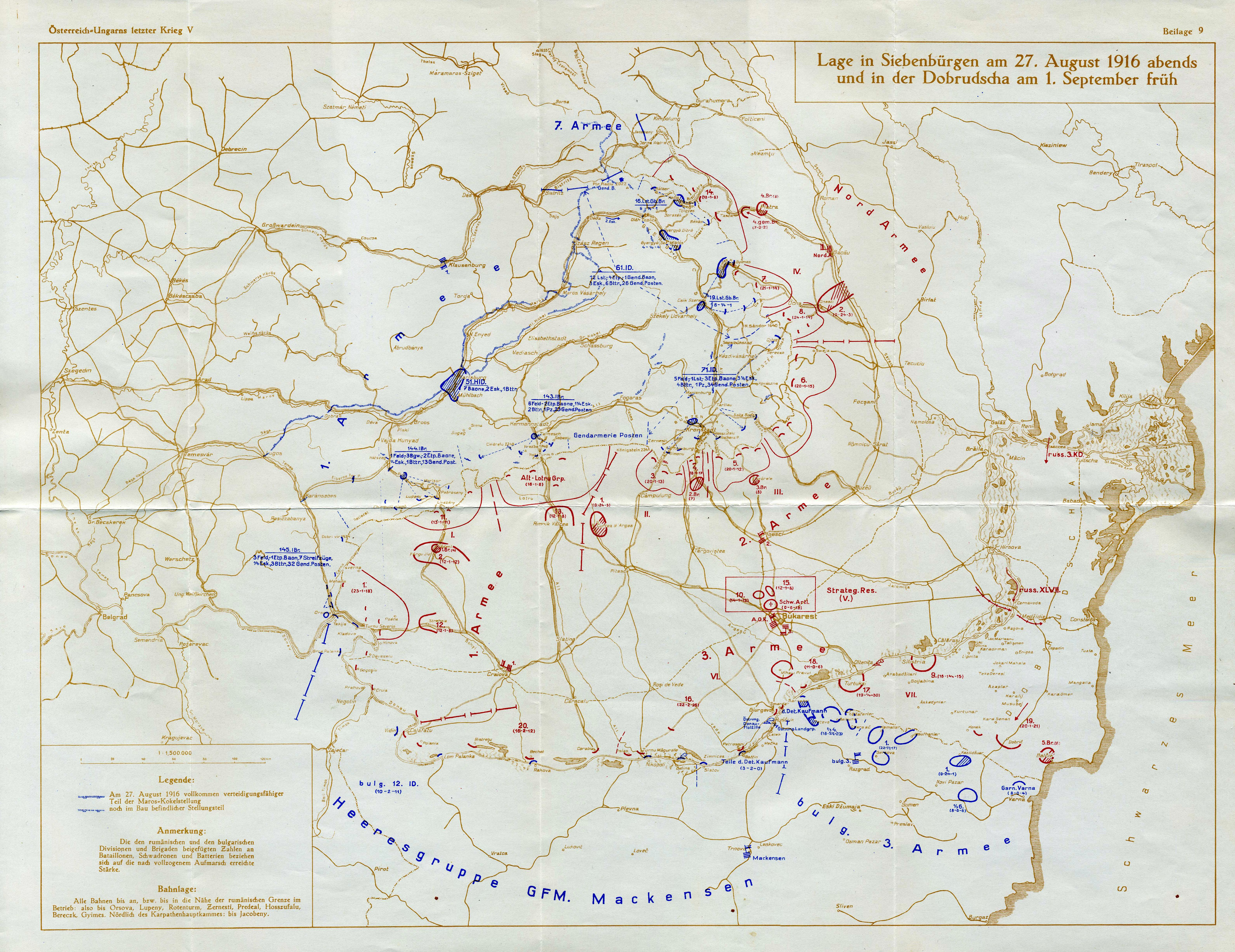 Romanian Front in WWI - The situation of the beligerants at the begining of the war, 1916